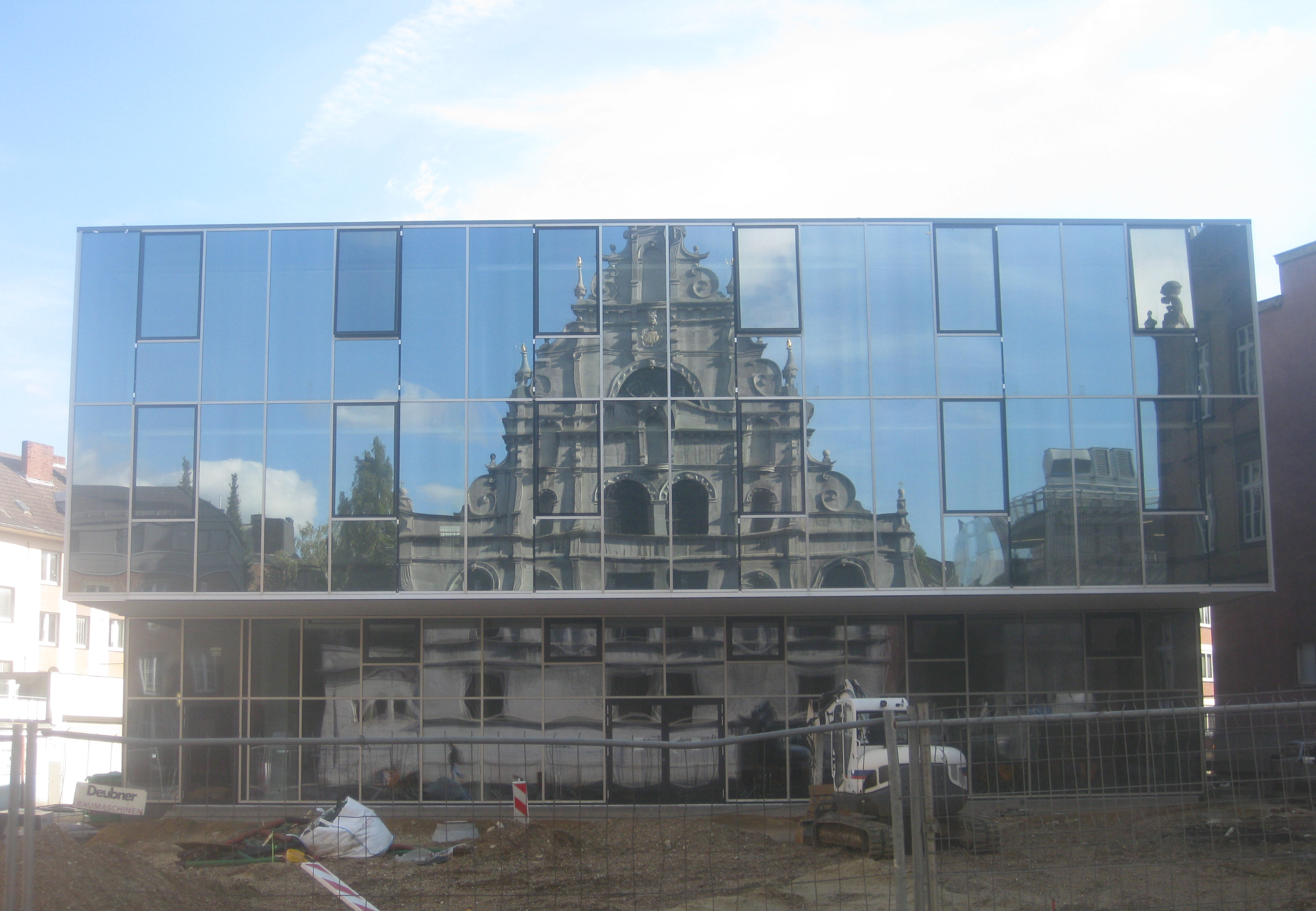 The church St.Michael & St. Dimitrios in Aachen as seen from an other building of the opposite side of the street